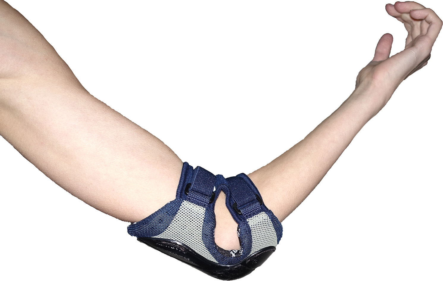 Salomon elbow pad for roller skating.